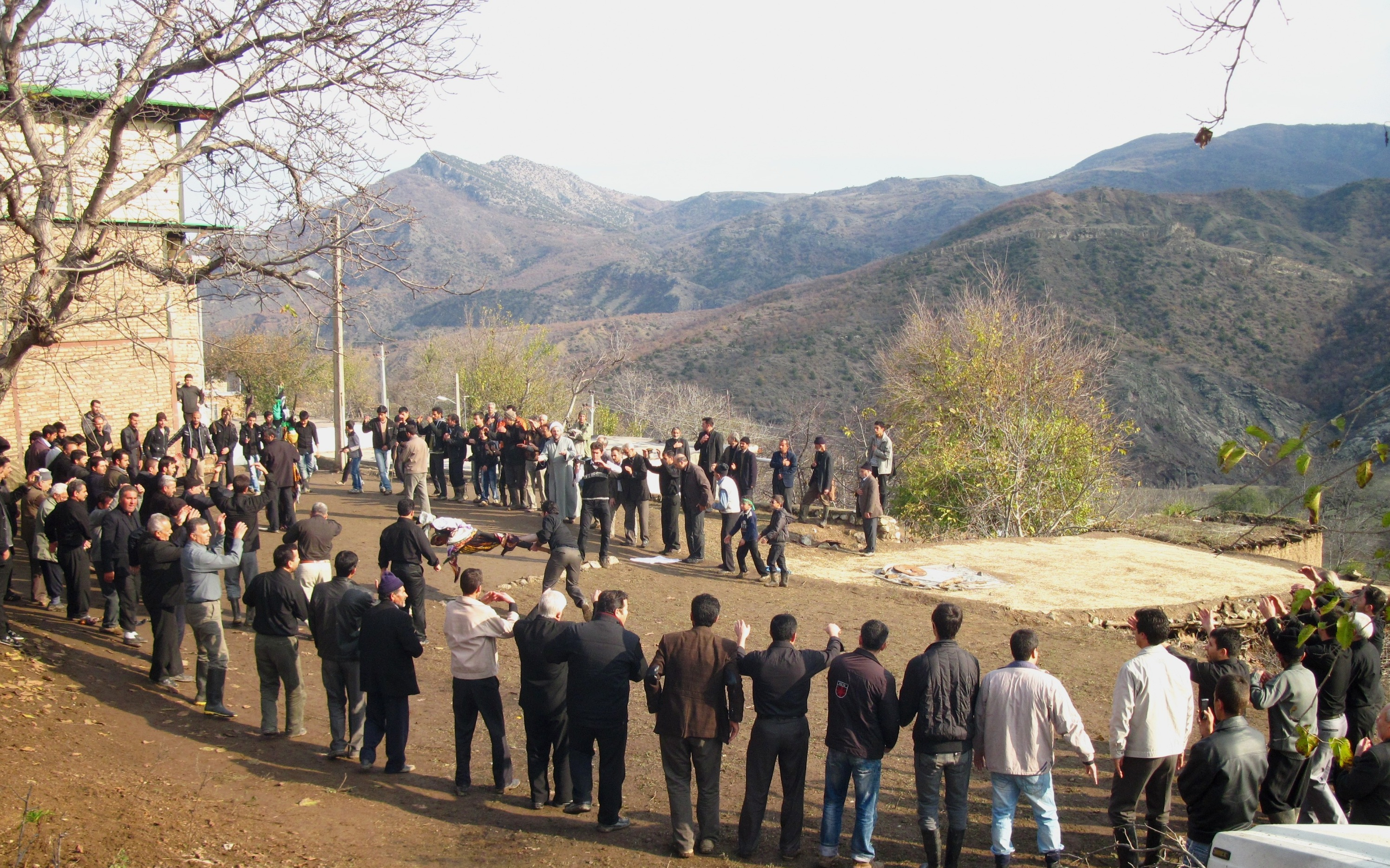 An icon used by some Shia's to commemorate Imam hossein's martyrdom. This photo is taken in Alherd village of Arasbaran region.